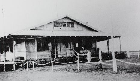 Photograph of Katherine aeradio building at the Katherine Airfield, taken in 1950. This building was converted to a museum in 1985. The photograph is part of the Cyril McGorey Collection of the Northern Territory Library.